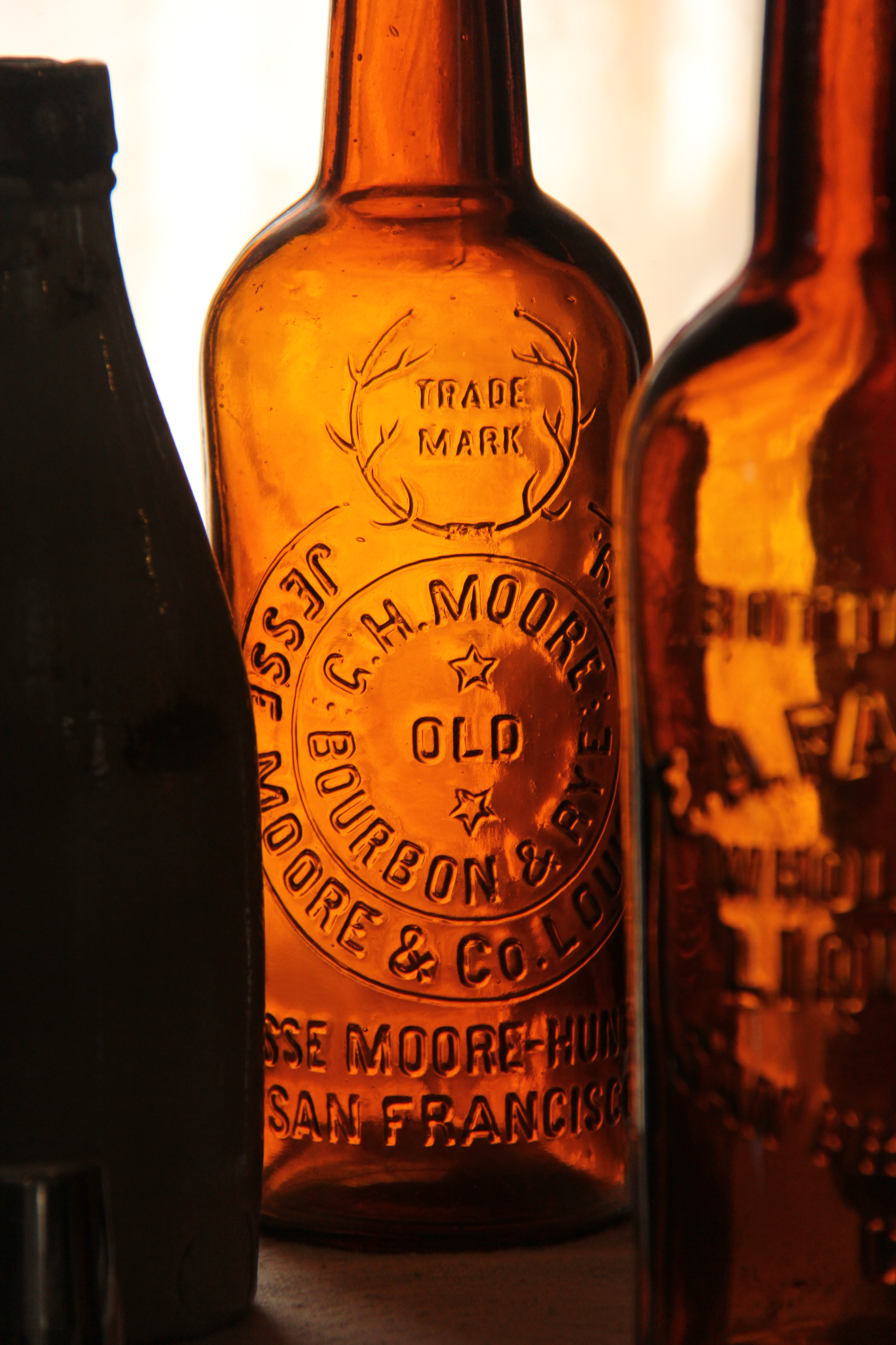 Bodie